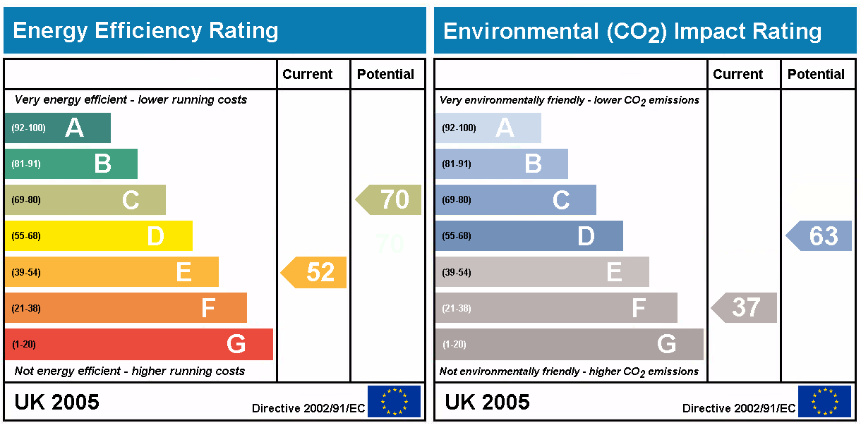 Sample UK home performance rating energy efficiency label, horizontal (side-by-side) orientation. See also: thumb|Home energy performance rating charts